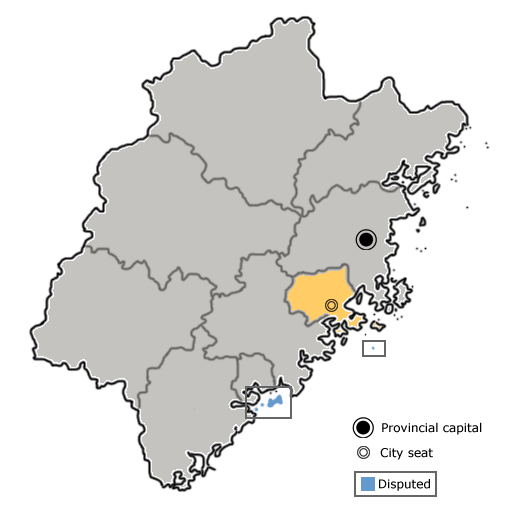 The prefecture-level city of Putian is highlighted on this map of Fujian province, People's Republic of China.